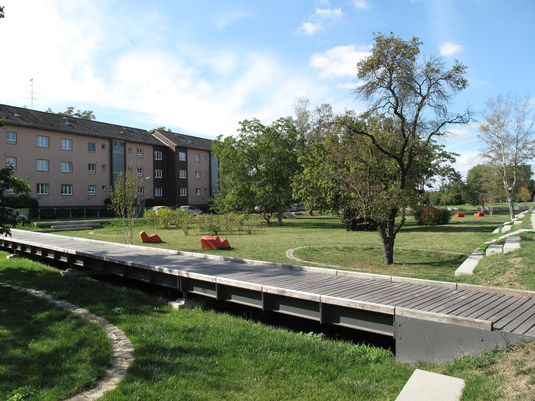 Sunken garden at the Bullengraben. The Bullengraben (german for: bullditch) is a drainage channel to the river Havel in the localities Staaken, Wilhelmstadt and Spandau in the borough Berlin-Spandau, Germany. In 2007 there was opened the green space Bullengraben (german: „Grünzug Bullengraben“) along the 4,5 kilometre long ditch.